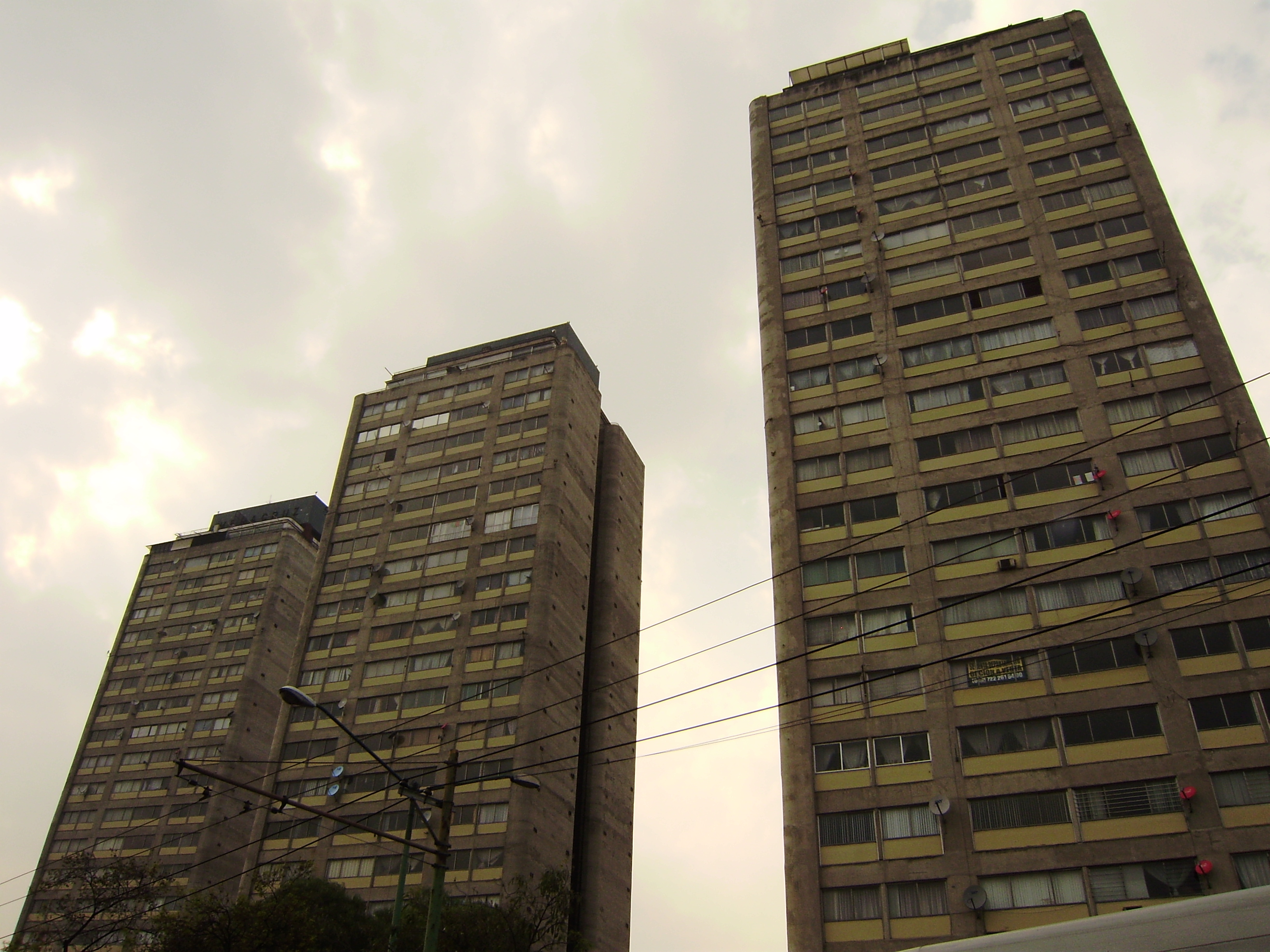 Buildings of Conjunto Urbano Nonoalco Tlaltelolco — by Mario Pani, 1957, Mexico City